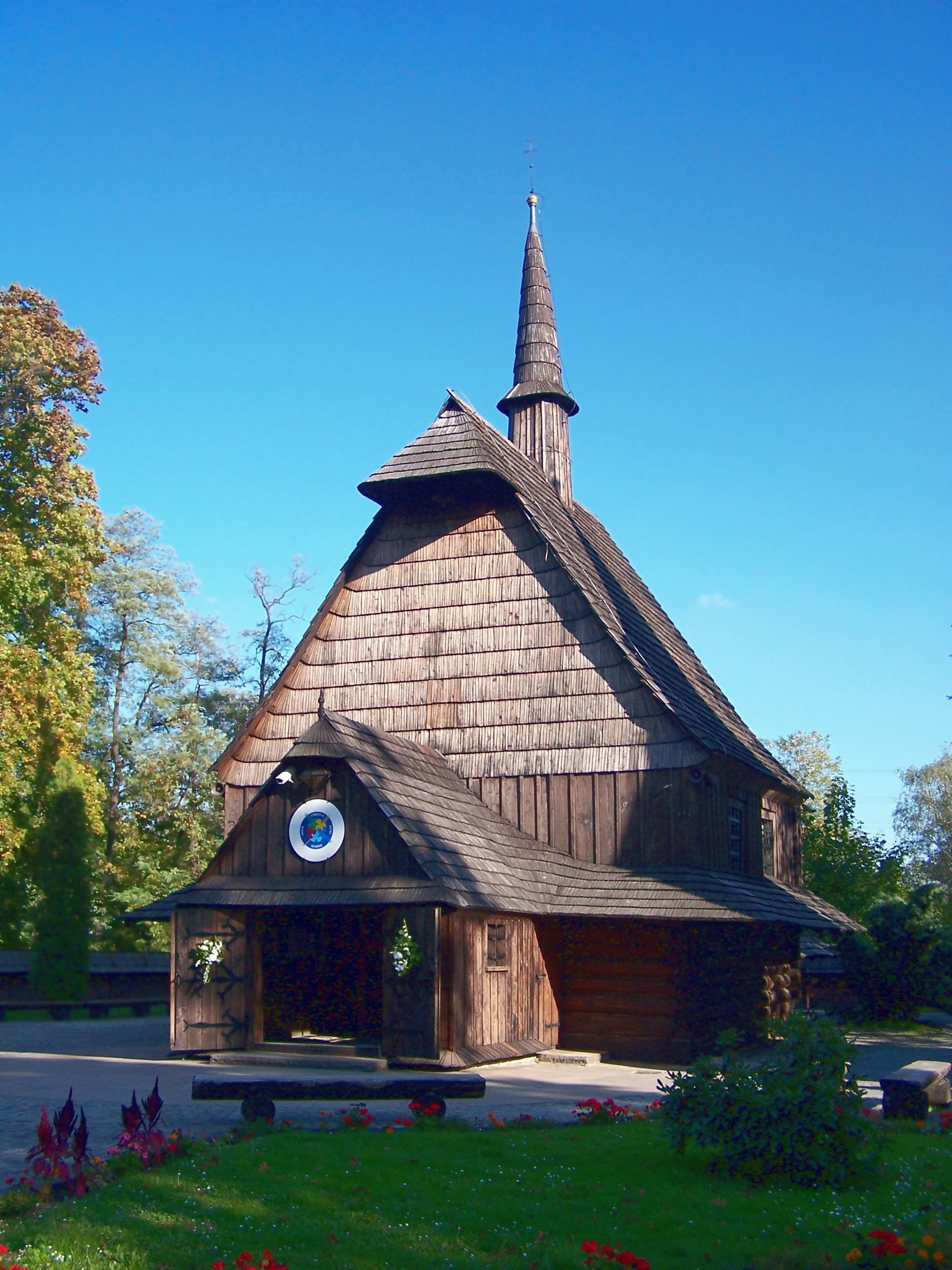 16th century Church of Michael Archangel in Kościuszko Park in Katowice.